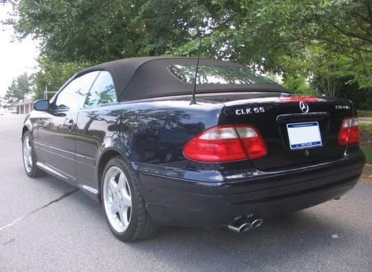 2002 Mercedes-Benz CLK55 AMG cabriolet Photographed in Port Chester, NY.